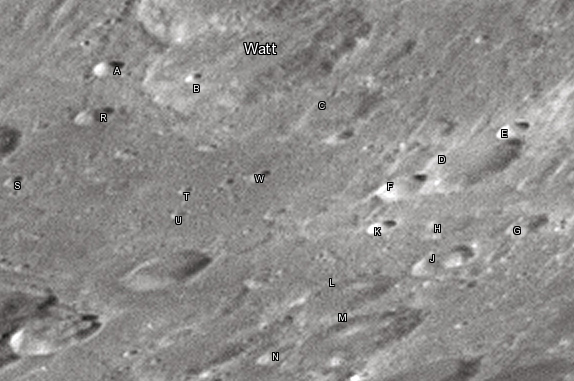 Watt lunar crater as seen from Earth with satellite craters labeled